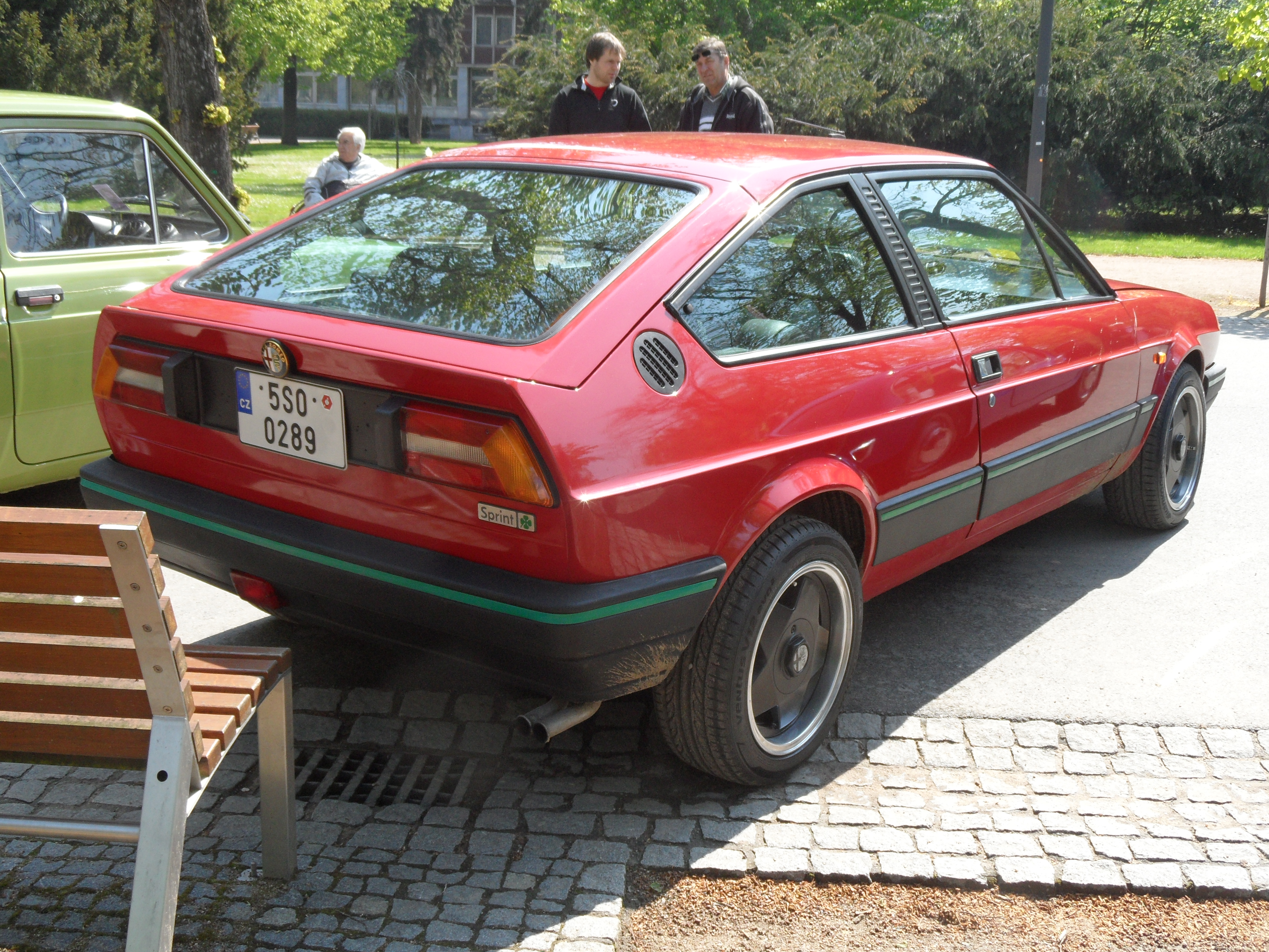 18th Meeting of Italian Car in Poděbrady; Nymburk District, the Czech Republic.Alfa Romeo Sprint.